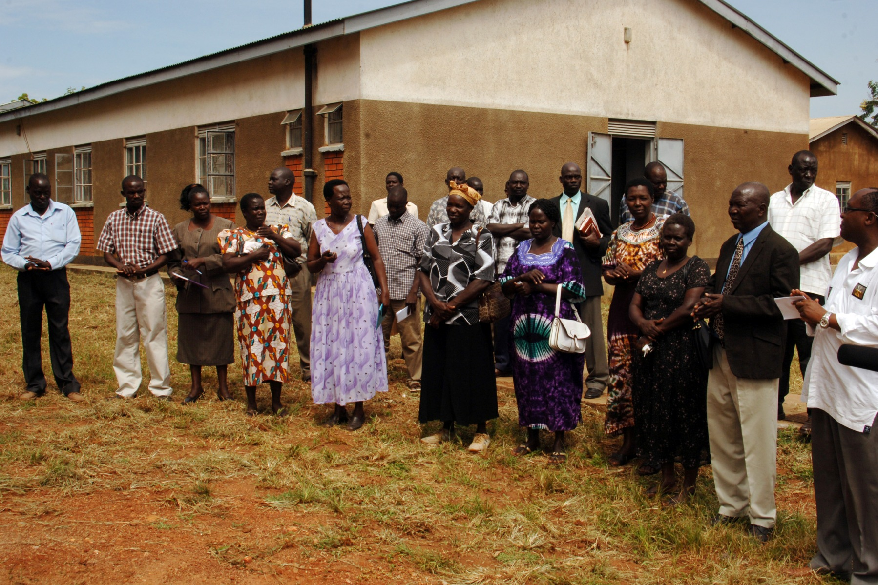 Residents of Kitgum, Uganda look on as service members from Combined Joint Task Force - Horn of Africa, dedicate a new public library on September 23, 2008. In addition to the library, service members from Combined Joint Task Force - Horn of Africa built a hospital pediatric clinic containing a maternity ward, delivery room, and a pediatric ward. Photo by Senior Master Sergeant John Jones, Combined Joint Task Force - Horn of Africa.